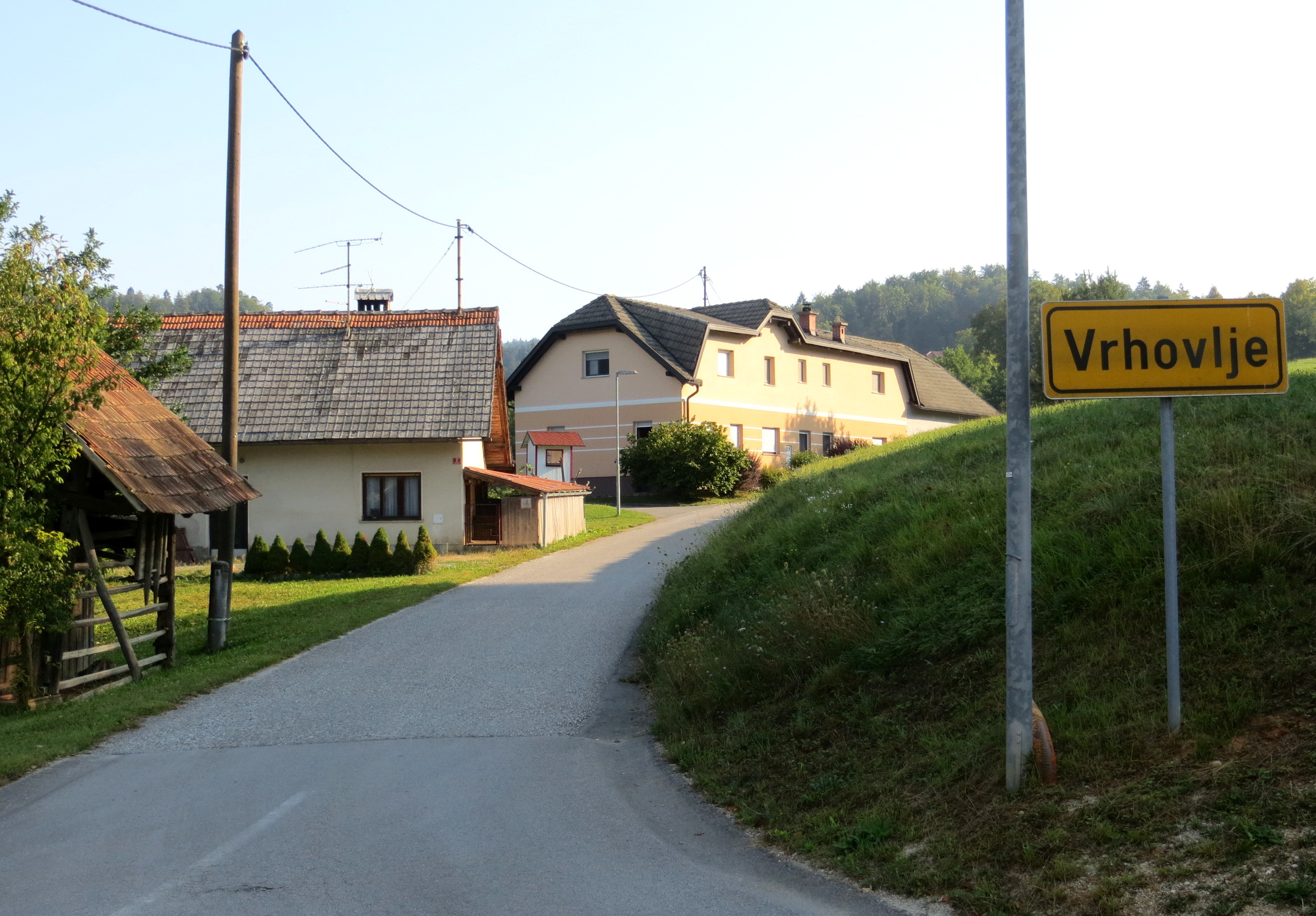 Vrhovlje, Municipality of Lukovica, Slovenia